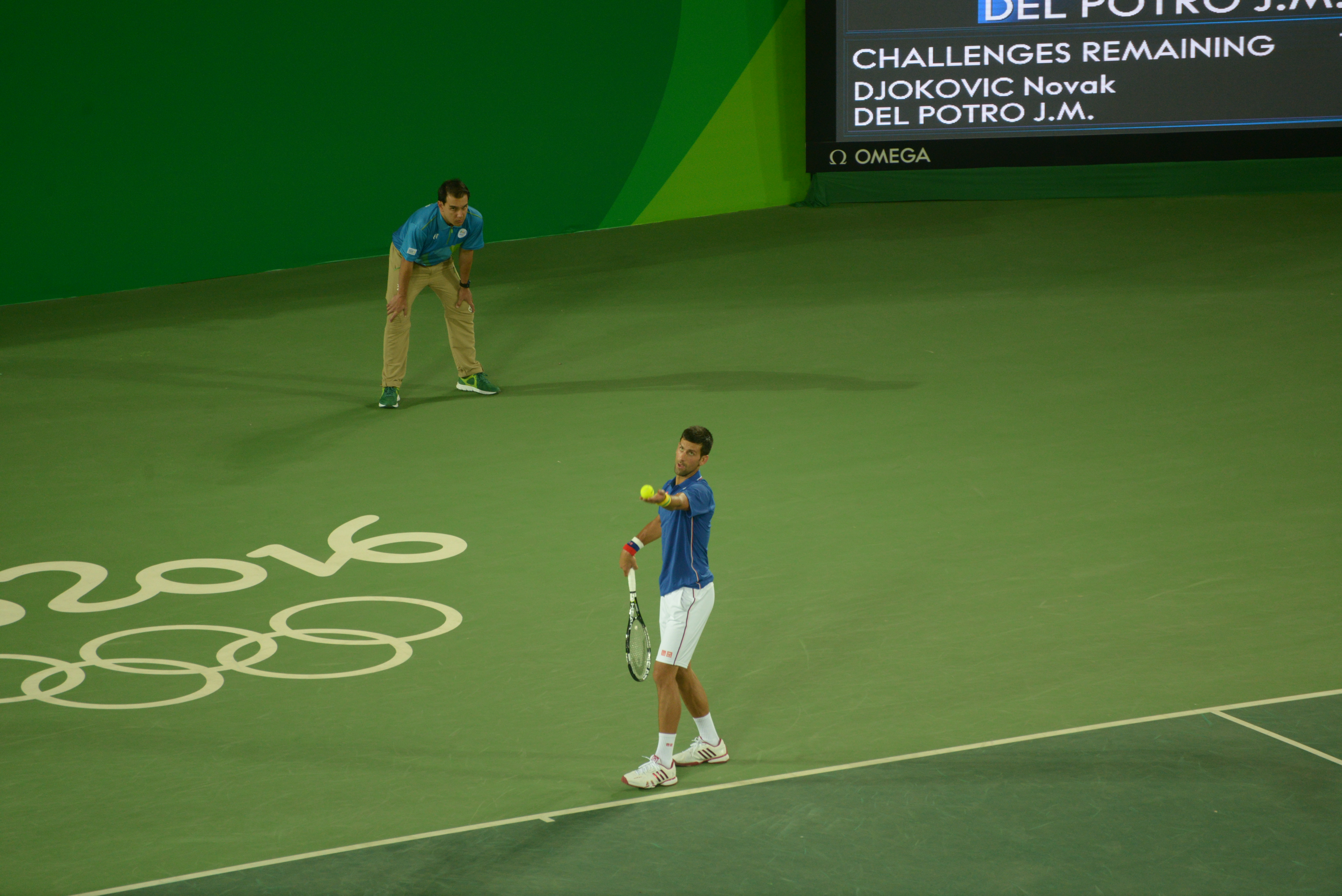 Serbian Novak Djokovic - first match against Del Potro in Olympics Games in Rio 2016